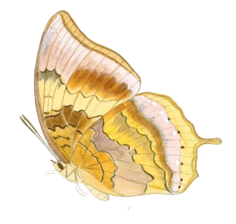 Haridra psaphon